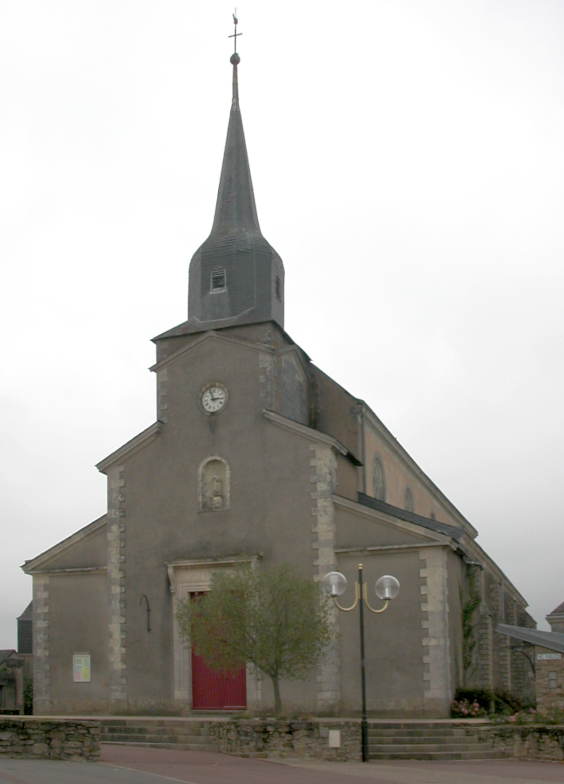 Church of Treillières